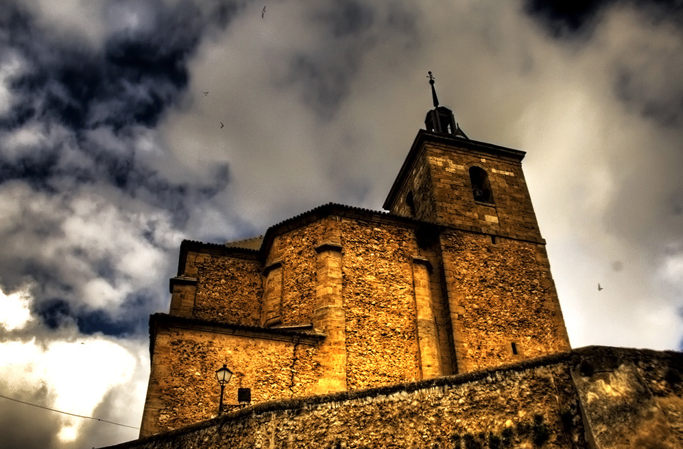 Saint Saint Stephen church of Albares (Guadalajara, Spain).